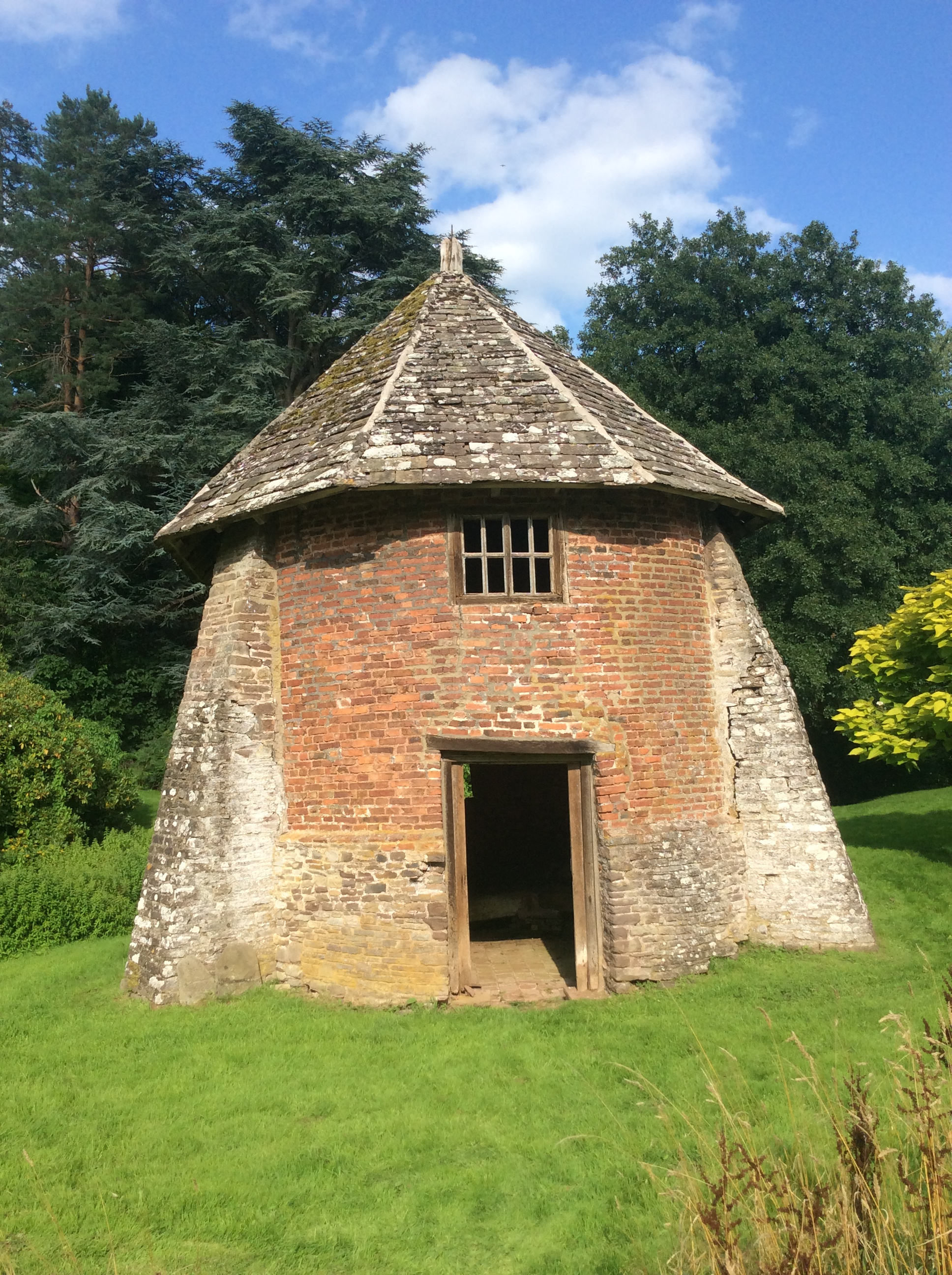 Llanvihangel Court, Monmouthshire - Garden House